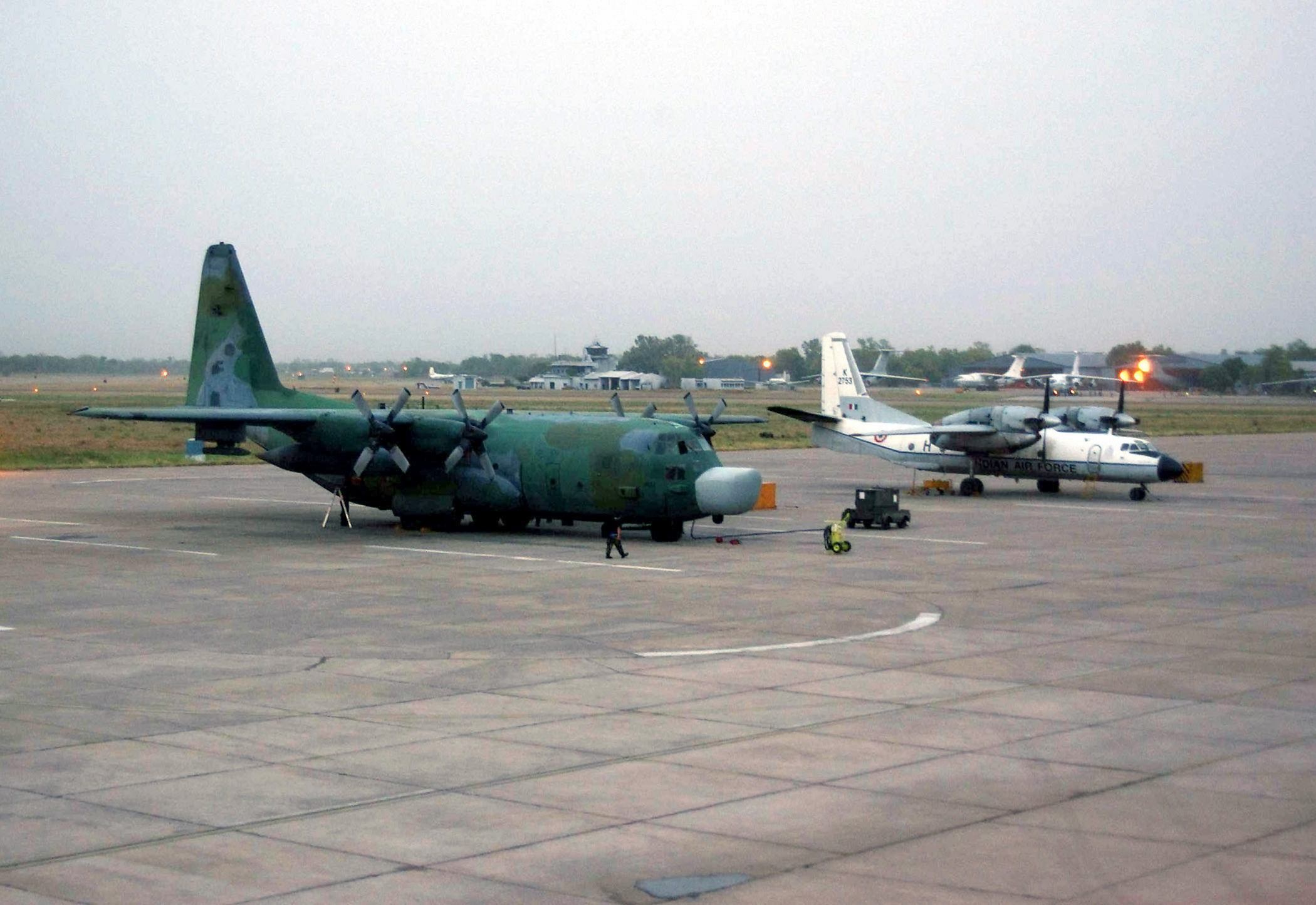 A US Air Force (USAF) MC-130H Combat Talon II aircraft assigned to the 1st Special Operations Squadron, 353rd Special Operations Group (SOG), is parked on the flight pad at Air Force Station Agra, India. An Indian Air Force AN-32 Cline aircraft is parked